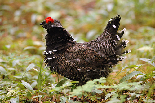 Falcipennis canadensis, sbsp. Franklin´s